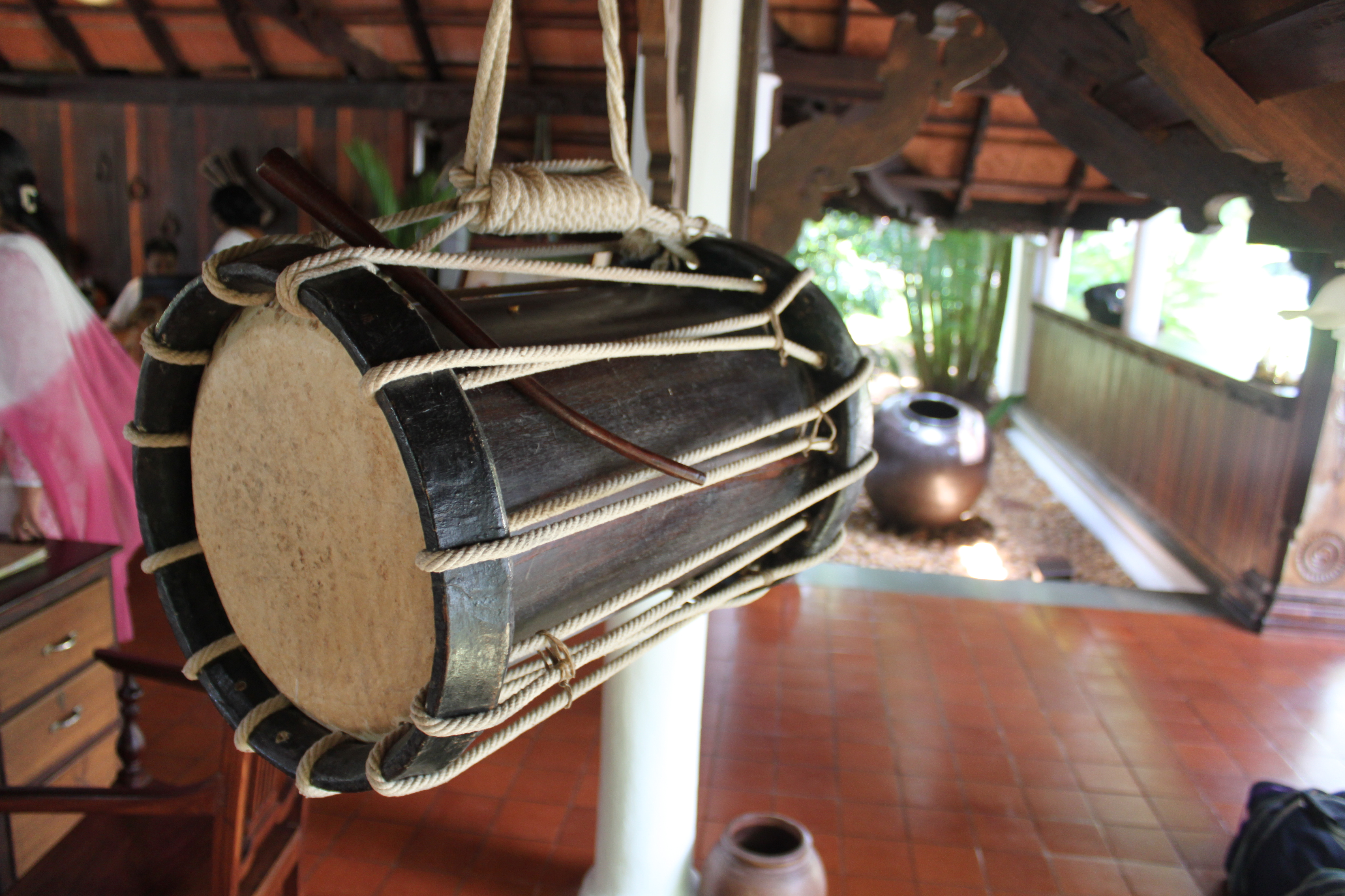 drum & stick ( chenda & kolu)